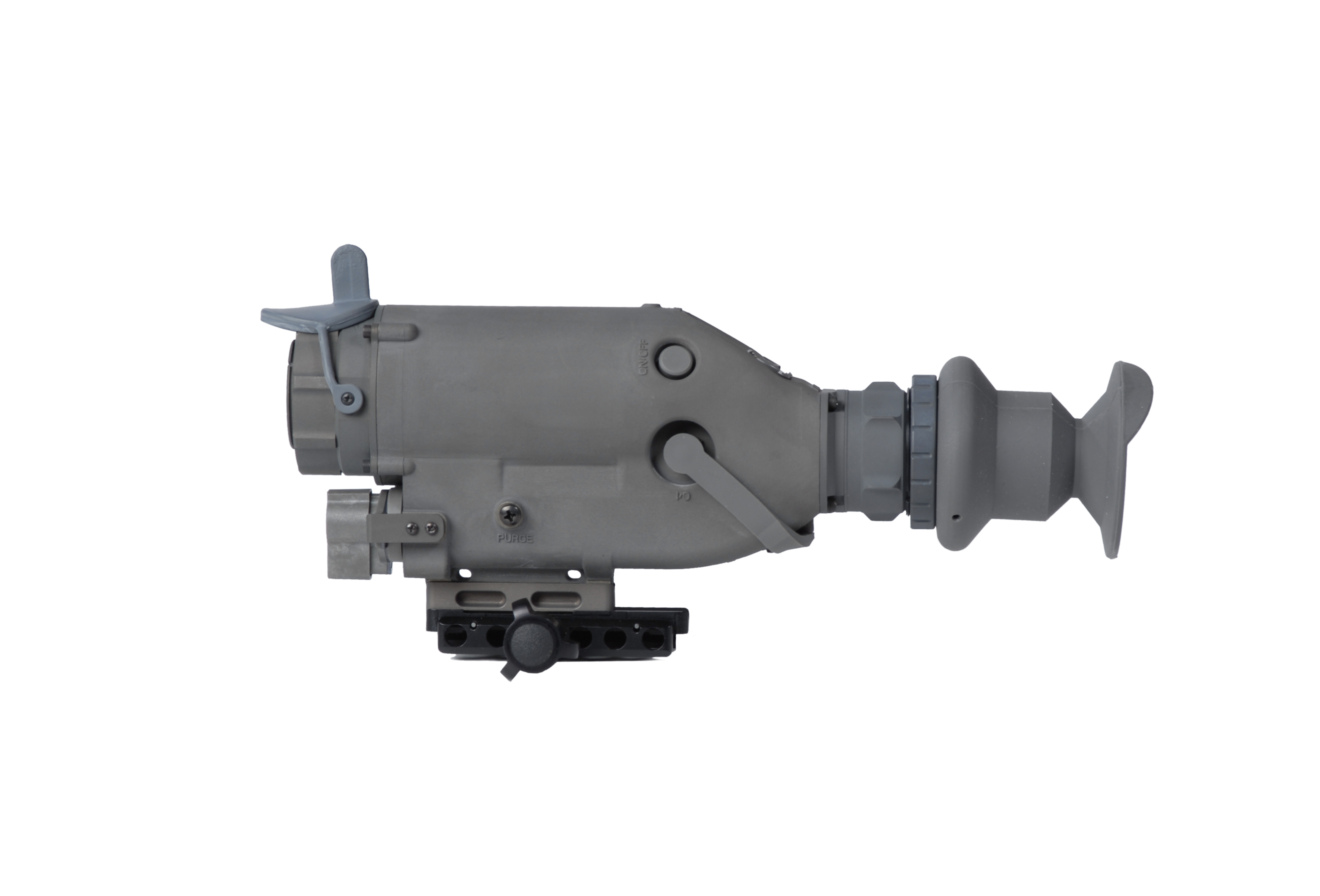 AN/PAS-13(V)1 Light Weapon Thermal Sight (LWTS). Enables the Soldier to detect and engage targets, day or night, in all weather and visibility-obscured conditions.